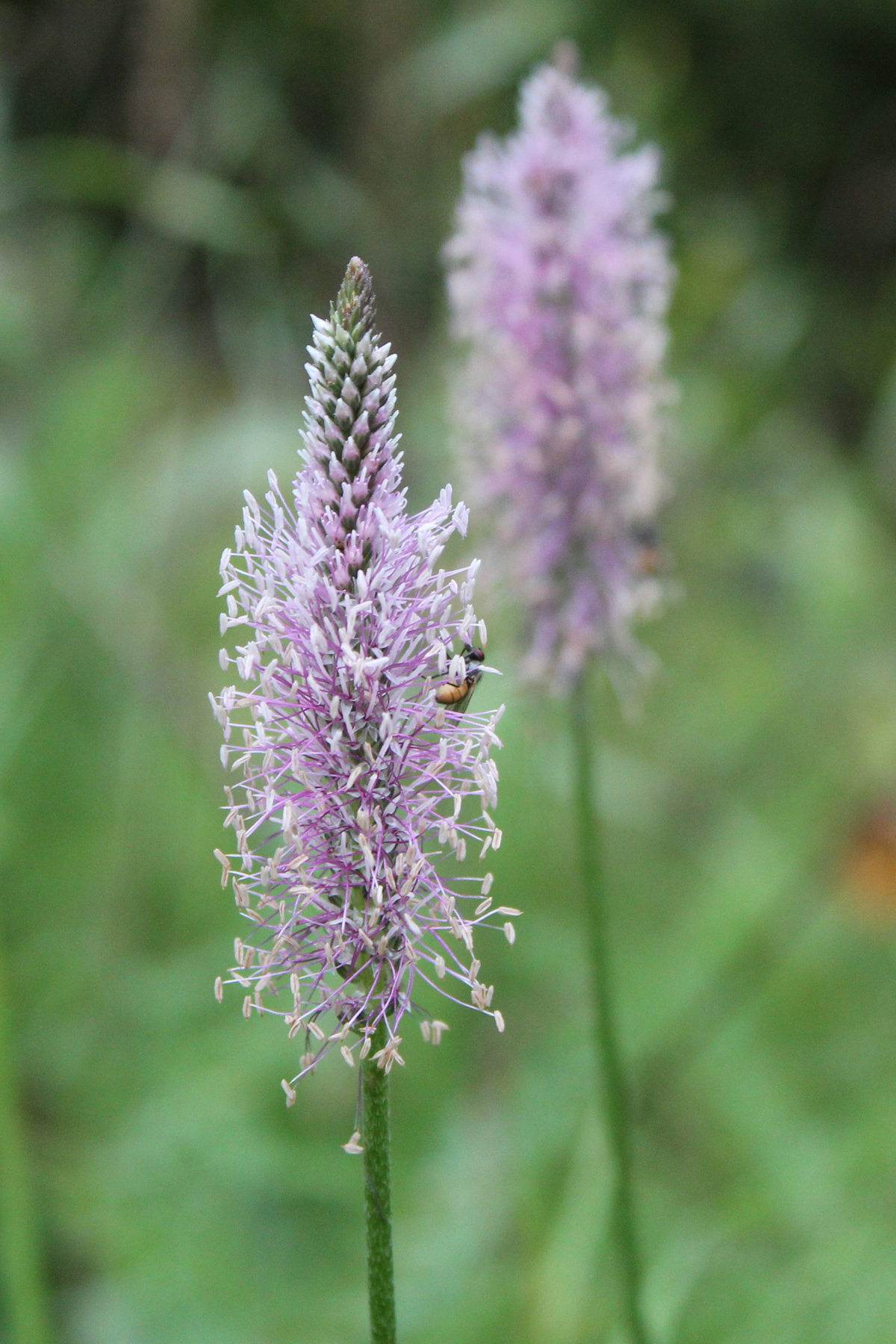 Plantago media and unknown Brachycera. Storberget, Hofors.